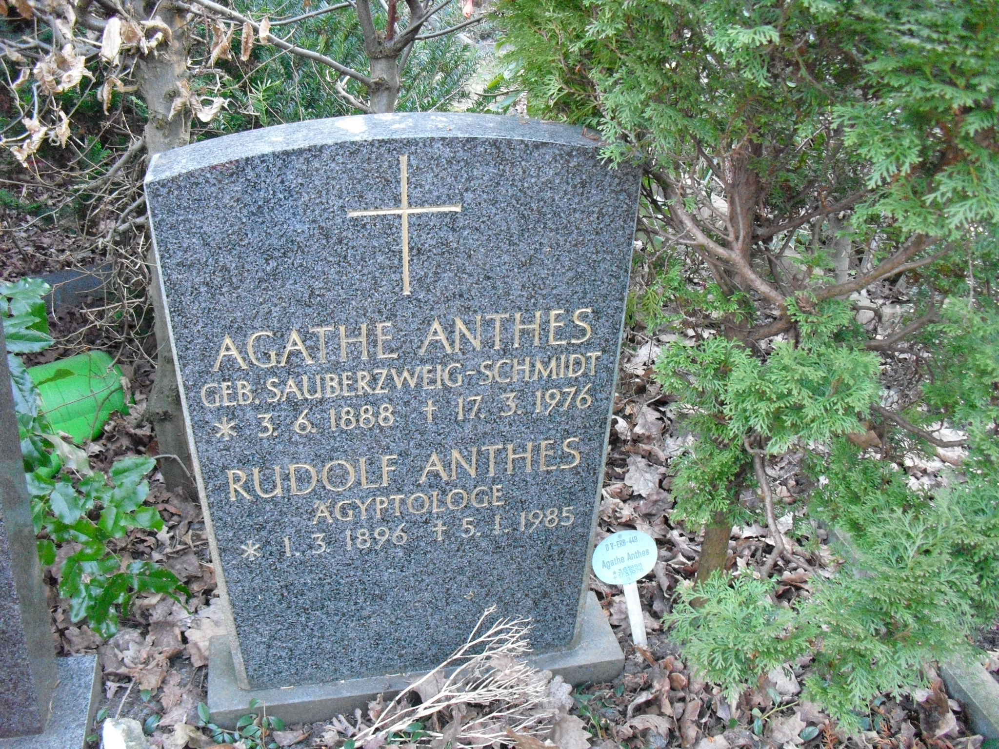 Grave of German egyptologist Rudolf Anthes in Friedhof Steglitz, Berlin.